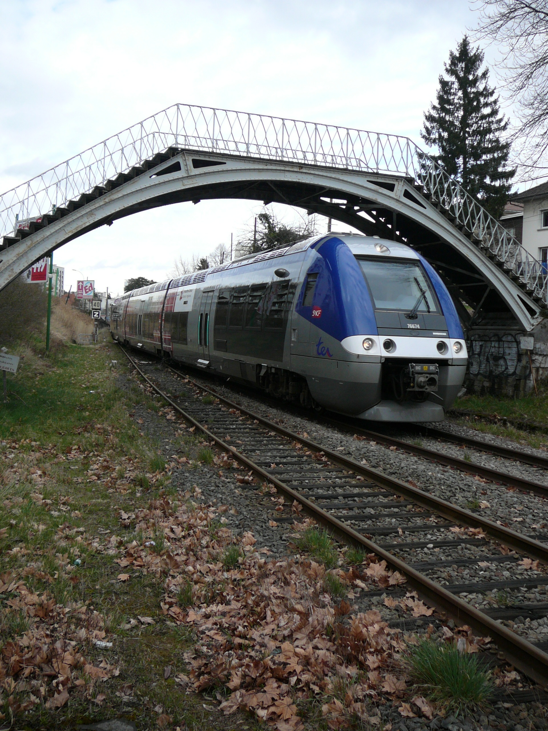 regional train to Valdahon arrives at Besançon-Mouillère station